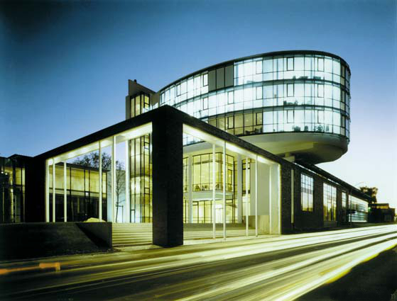 Stadtwerke Witten headquarters in Witten